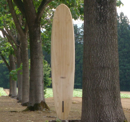 Paulownia Timber